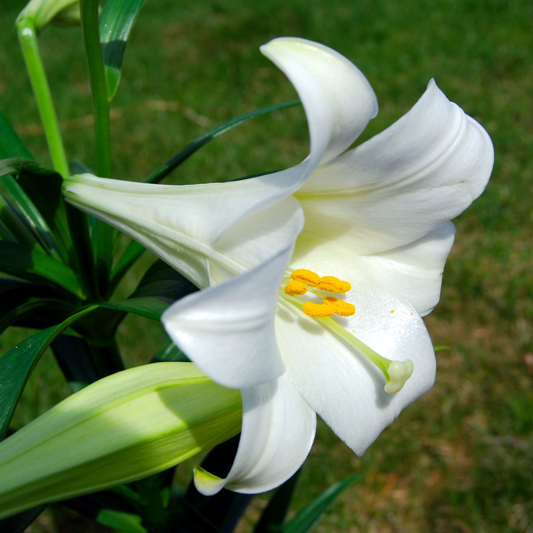 A lilium longiflorum, commonly known as an Easter Lily.